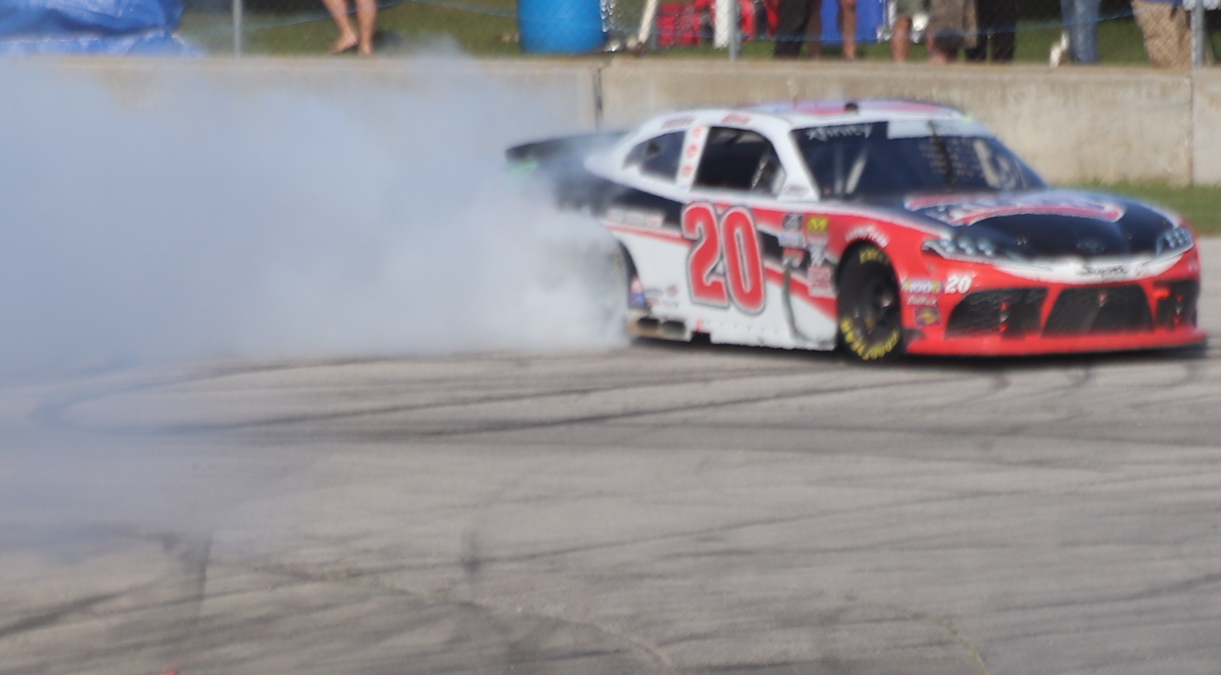 Christopher Bell does burnouts after winning the 2019 CTECH Manufacturing 180 NASCAR Xfinity Series race at Road America.